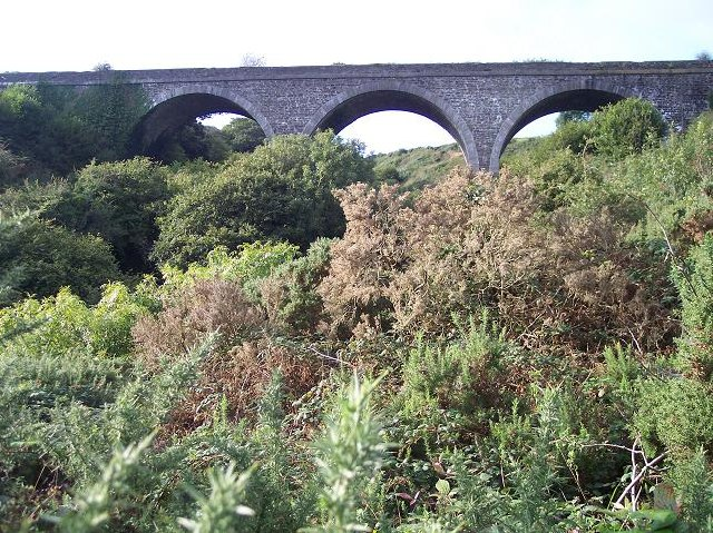 Halfway Viaduct, near Ballinhassig, Co, Cork. One mile west of Ballinhassig station the Cork Bandon & South Coast Railway had to cross a gorge formed by a tributary of the Owenboy River. Sadly vegetation has encroached, restricting a good view of the three-arched viaduct.